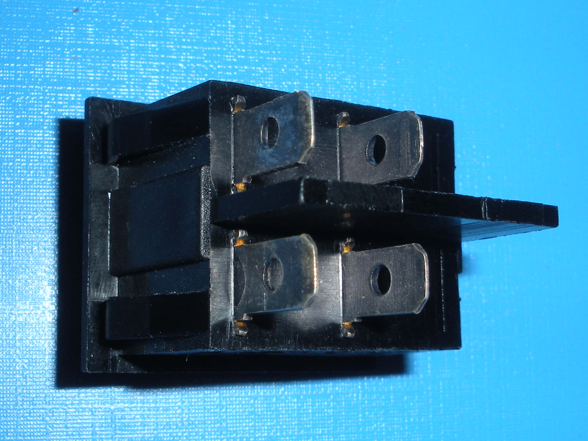 DPST Switch, Rear Side